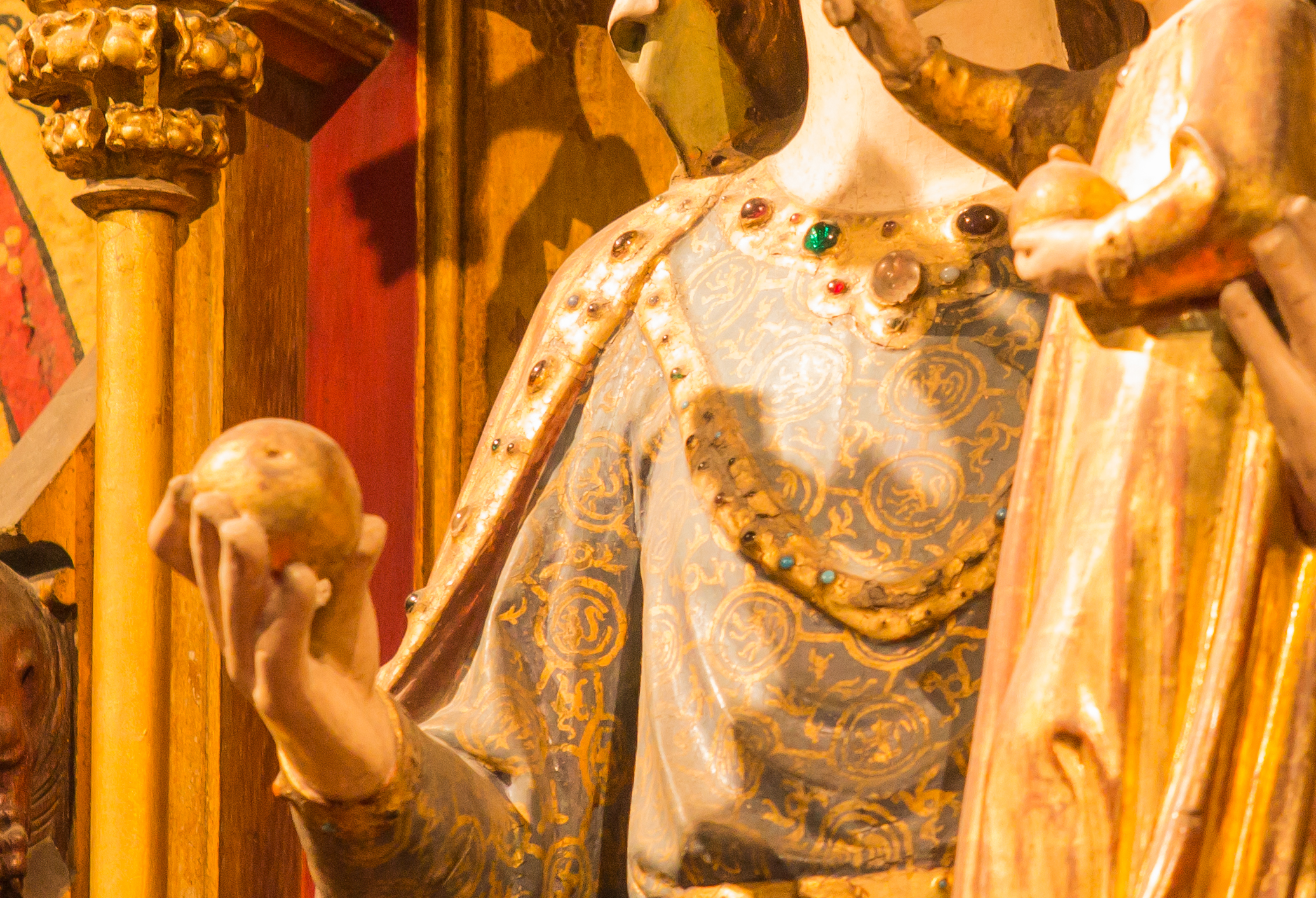 Statue of the Madonna with Child, named "Füssenicher Madonna", after the place of origin, a village west of Cologne; since end of 19. century located in the Axis Chapel (Chapel of the Three Kings) of the Cologne Cathedral